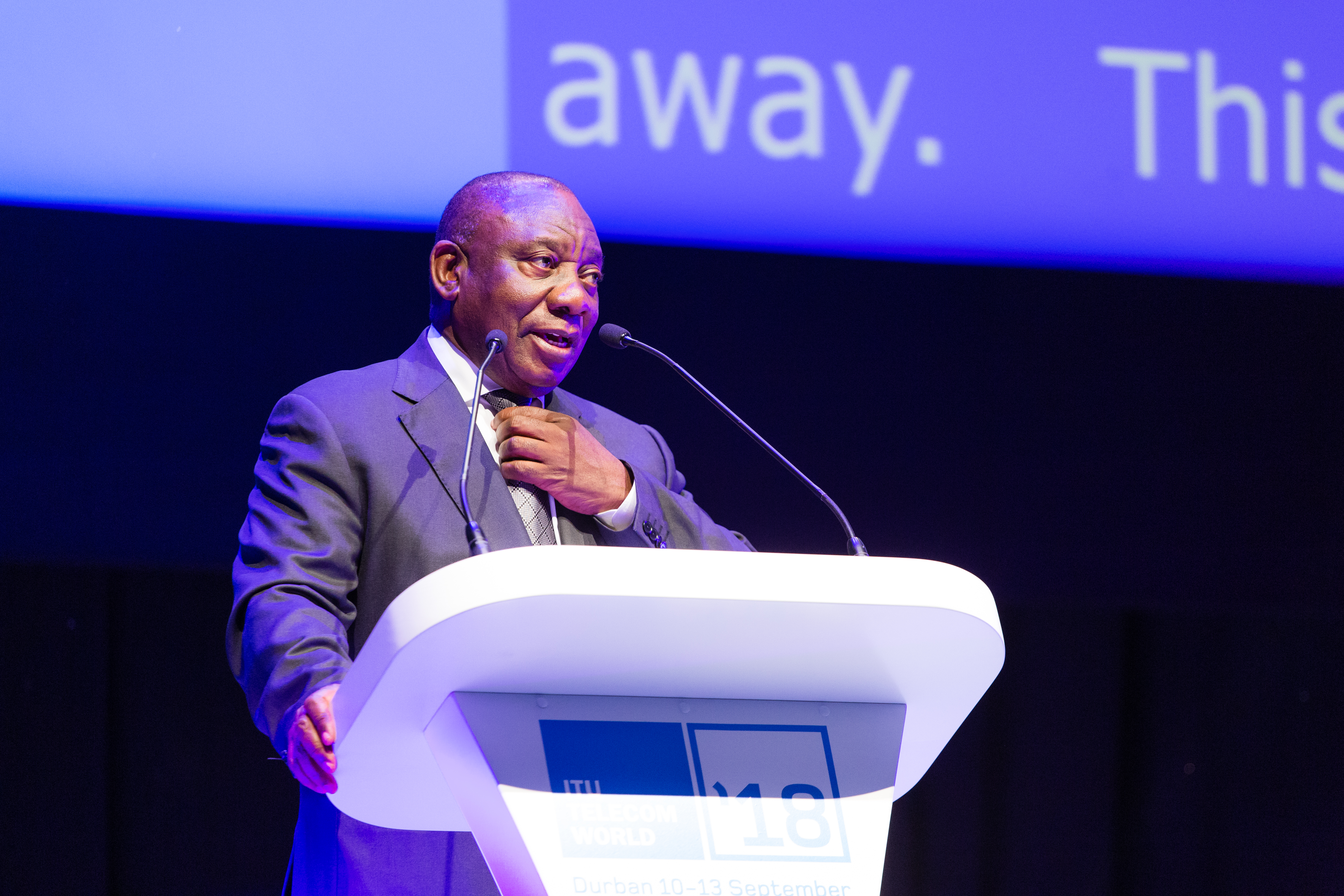 H. E. Mr. Cyril Ramaphosa President The Presidency ITU Telecom World 2018 ©ITU/Browne